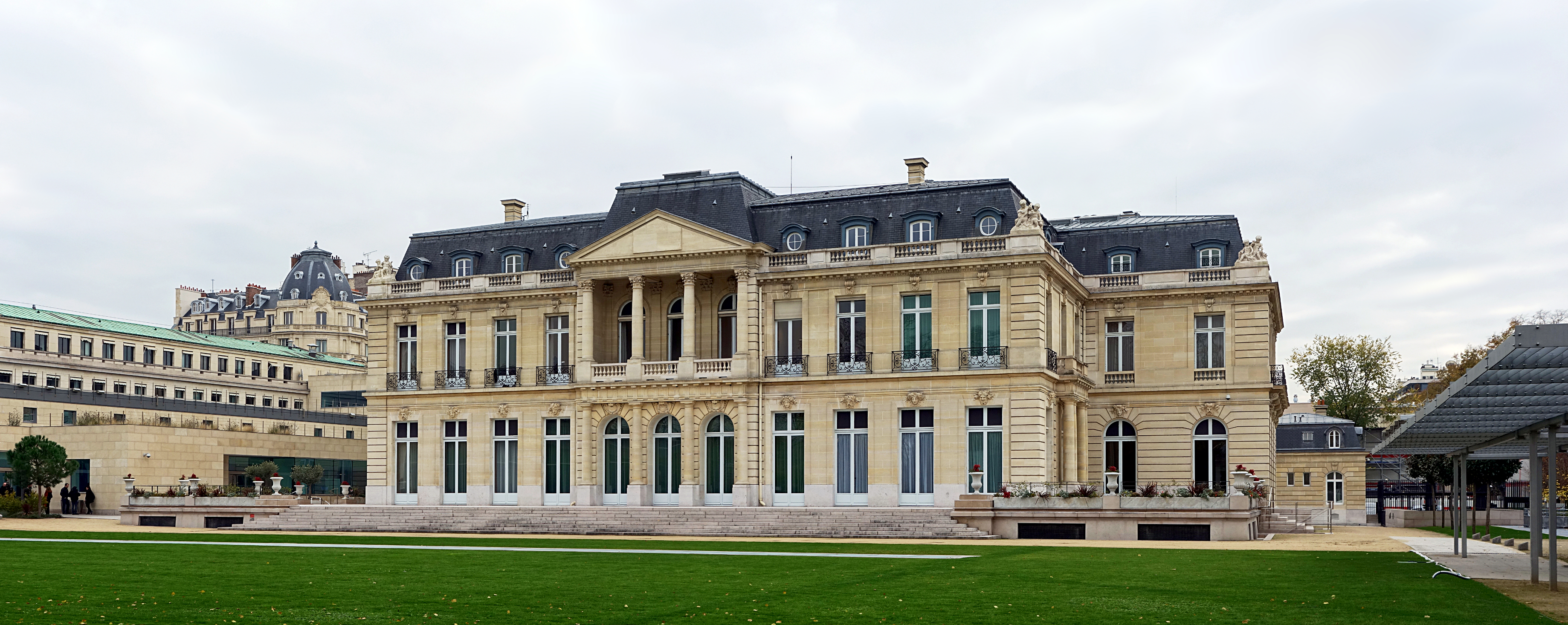 Château de la Muette, view from the park, Paris, France.